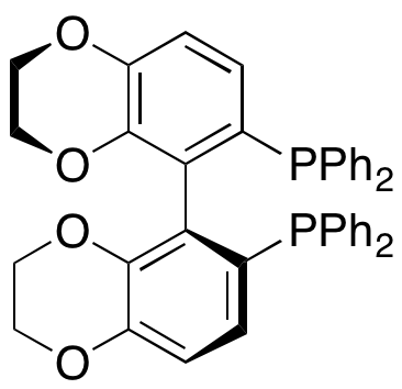 SYNPHOS, developed by Genet